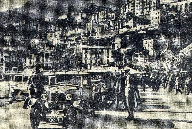 Parade in Monaco with the cars that have arrived. Entry #15 in the 1930 Rallye Monte Carlo is V. E. Leverett in a Riley with 1,089 ccm engine (Riley Nine perhaps). He ended in 37rd place overall.[1]